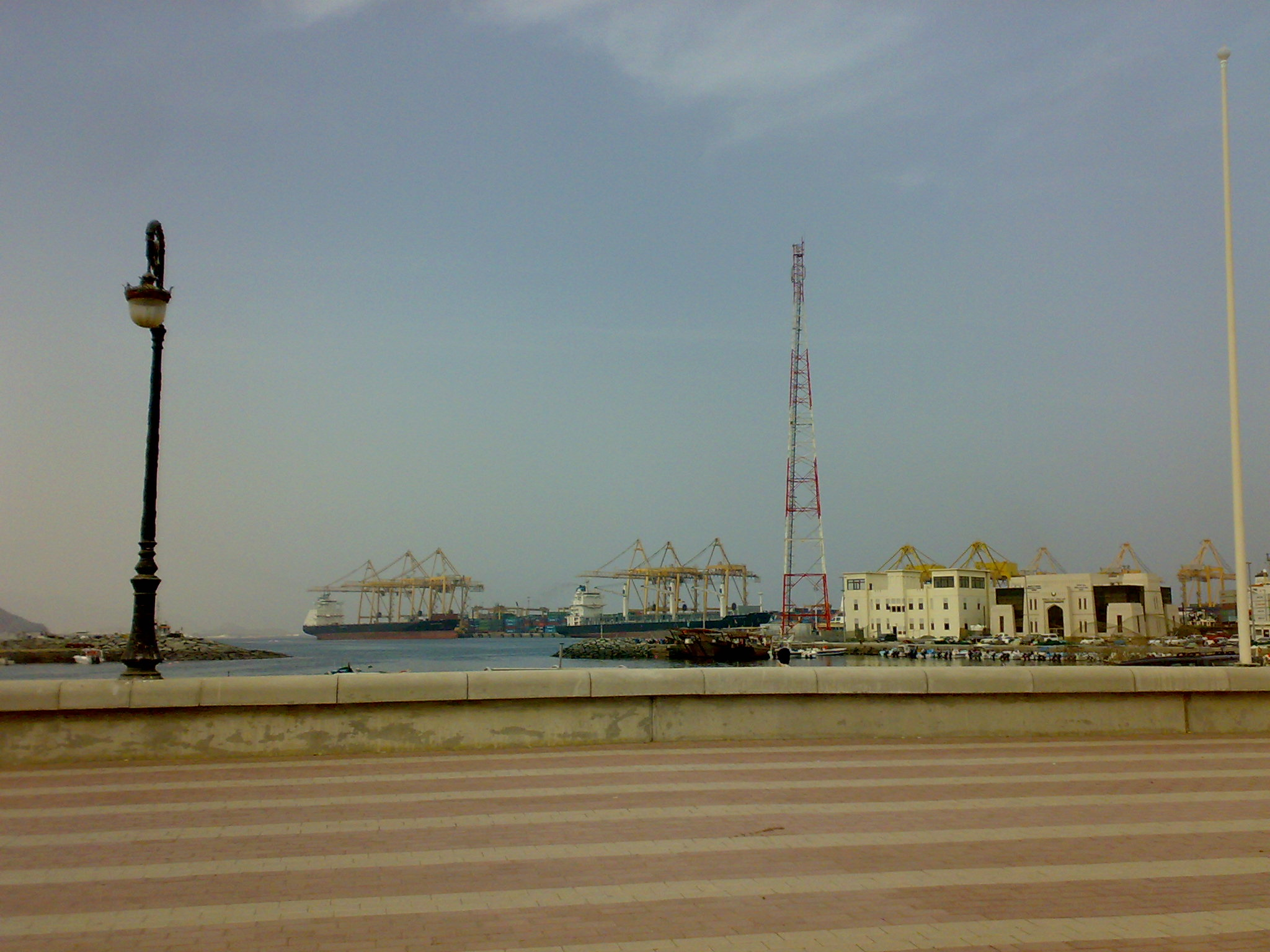 Port of Khor Fakkan, city of Khor Fakkan, eastern UAE.